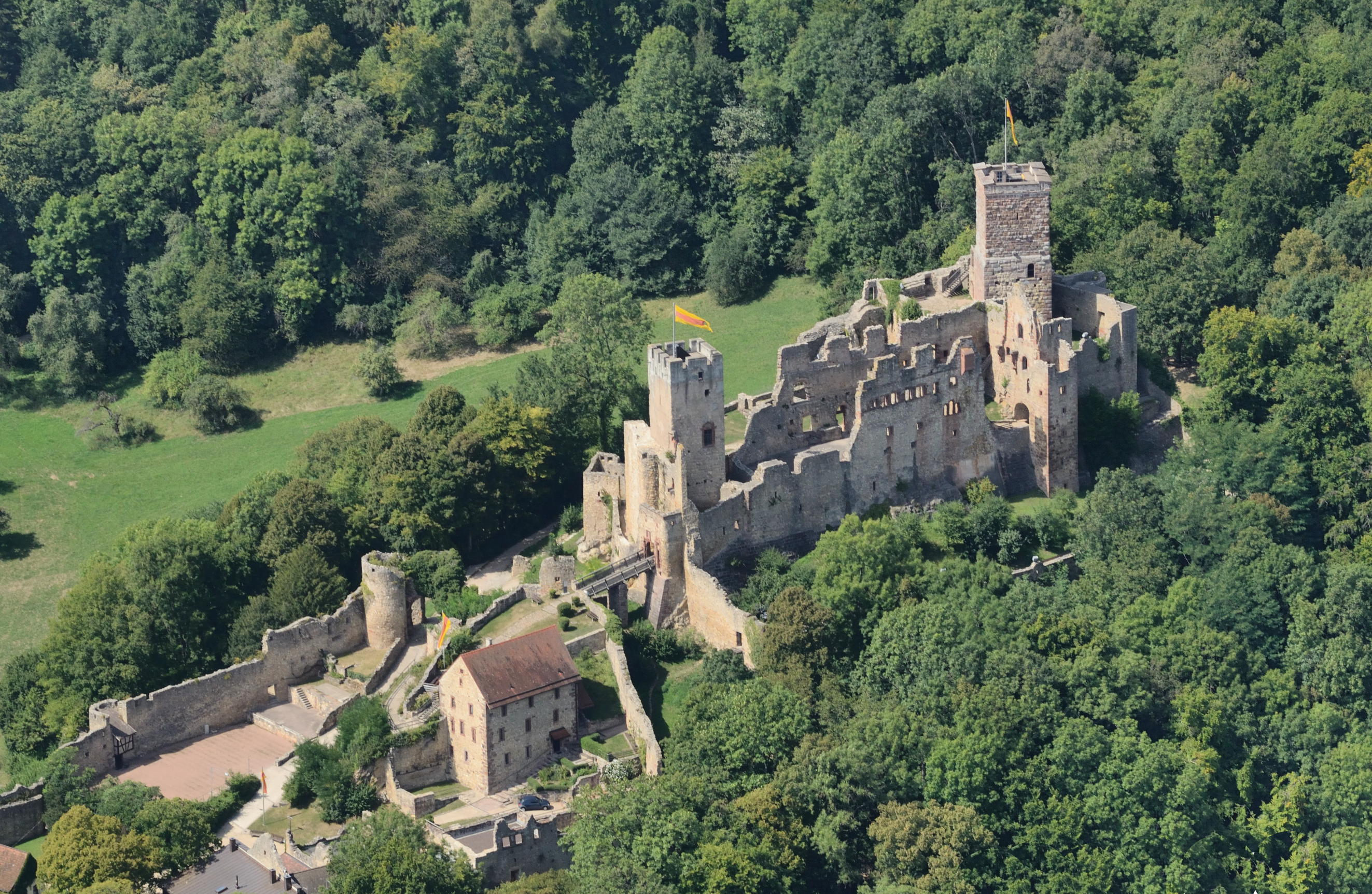 Lörrach: aerial view of Rötteln Castle